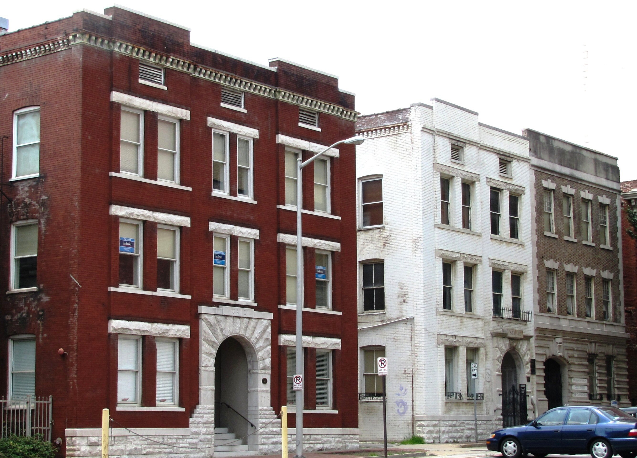 The Cate Building (713 Market), the Stuart Building (709 Market), and the Cunningham Building (707 Market) in Knoxville, Tennessee, USA. Built circa 1895–1907, three structures, along with two buildings on nearby Church Avenue, comprise the NRHP-listed South Knoxville Historic District.